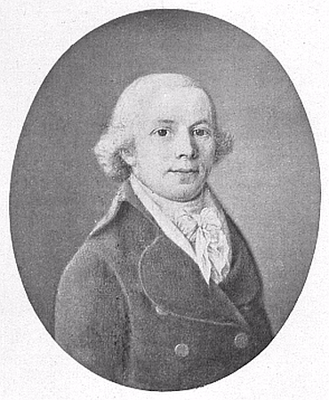 Portrait of Georg Gustav Detharding, German physician in Rostock.